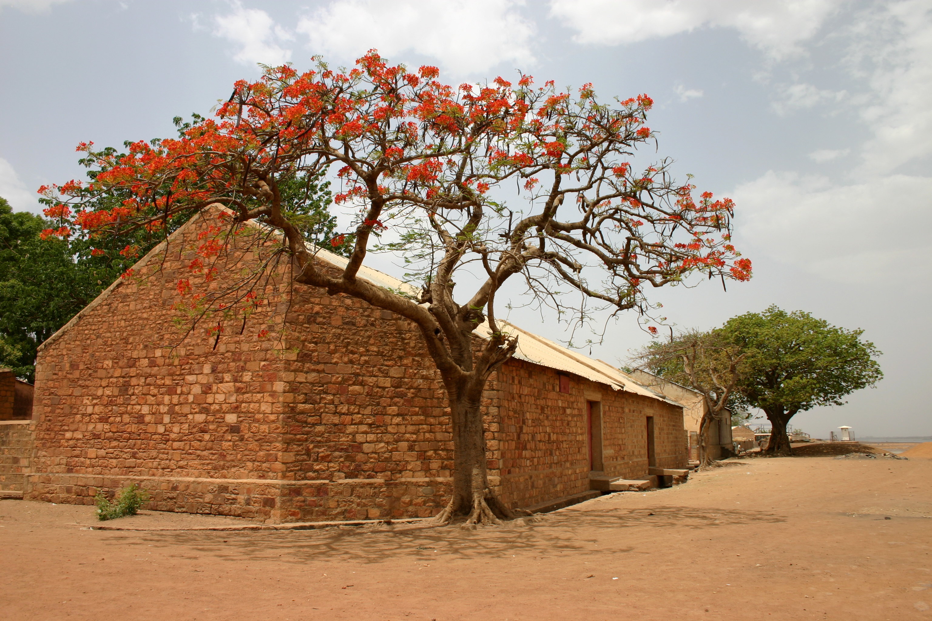 A Flame tree against brick building in Mali. Tree is Delonix regia commonly known as Royal Poinciana.